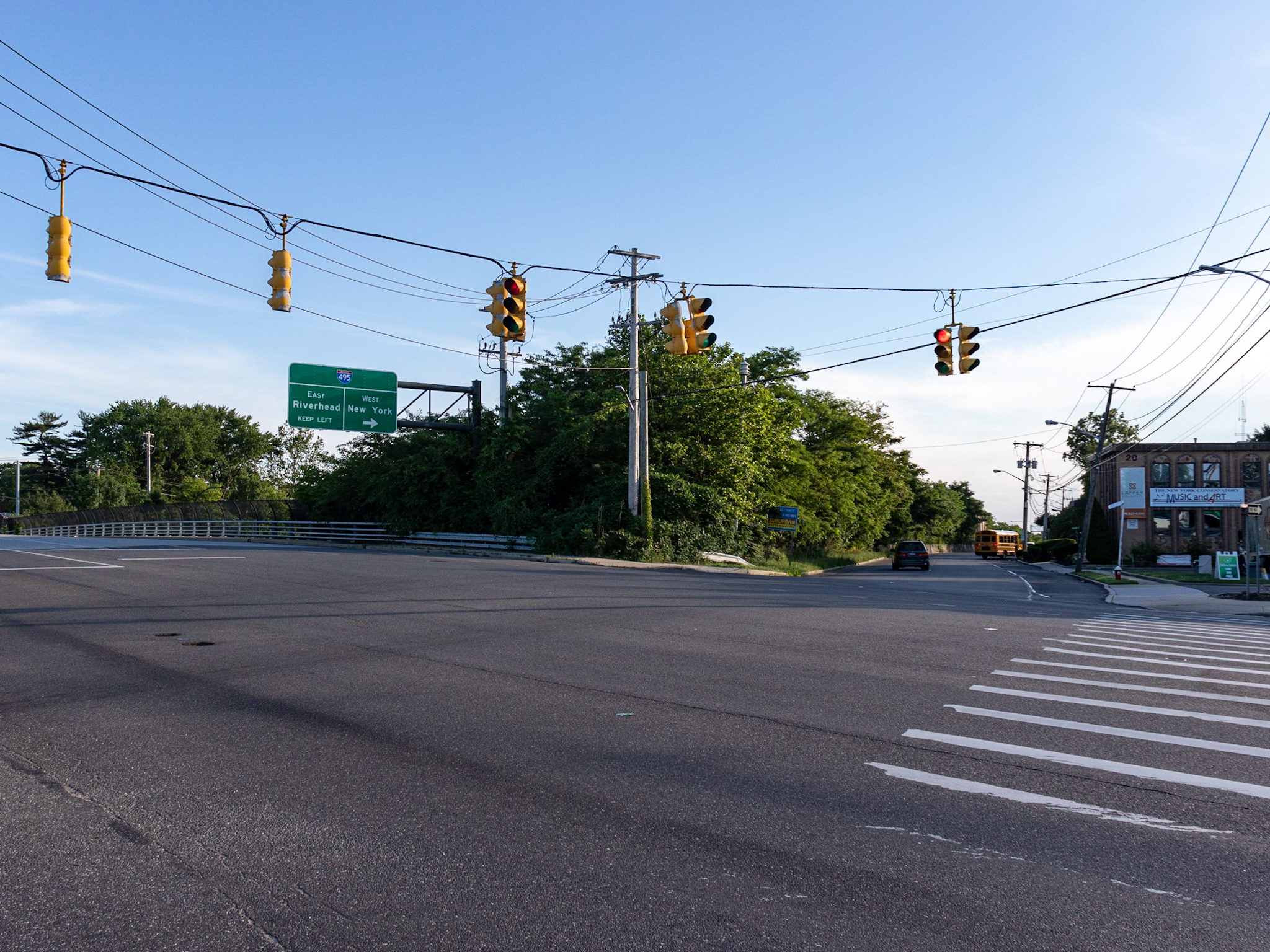 The intersection between S. Oyster Bay Road, N. Service Road, and Miller Place. This is near the border between Syosset and Plainview.